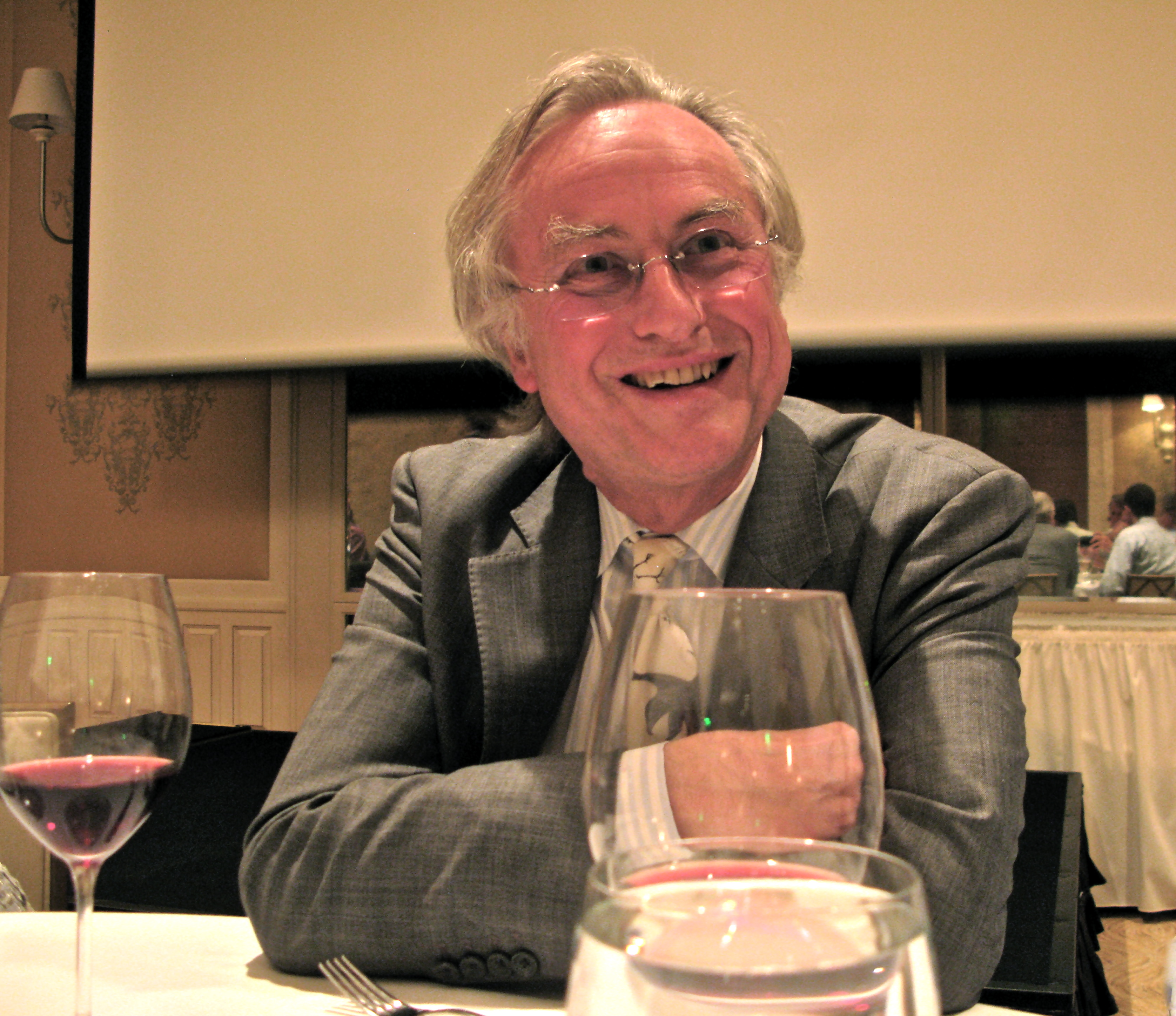 Richard Dawkins on a Richard Dawkins Foundation dinner.